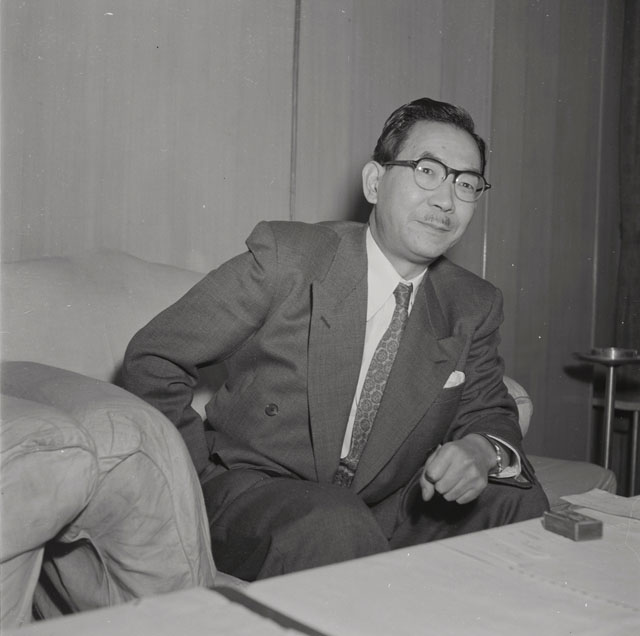 Japanese PM Takeo Miki in 1951. Since this picture's copyright belonged to a Japanese magazine company, the license has expired since this was taken in 1951.